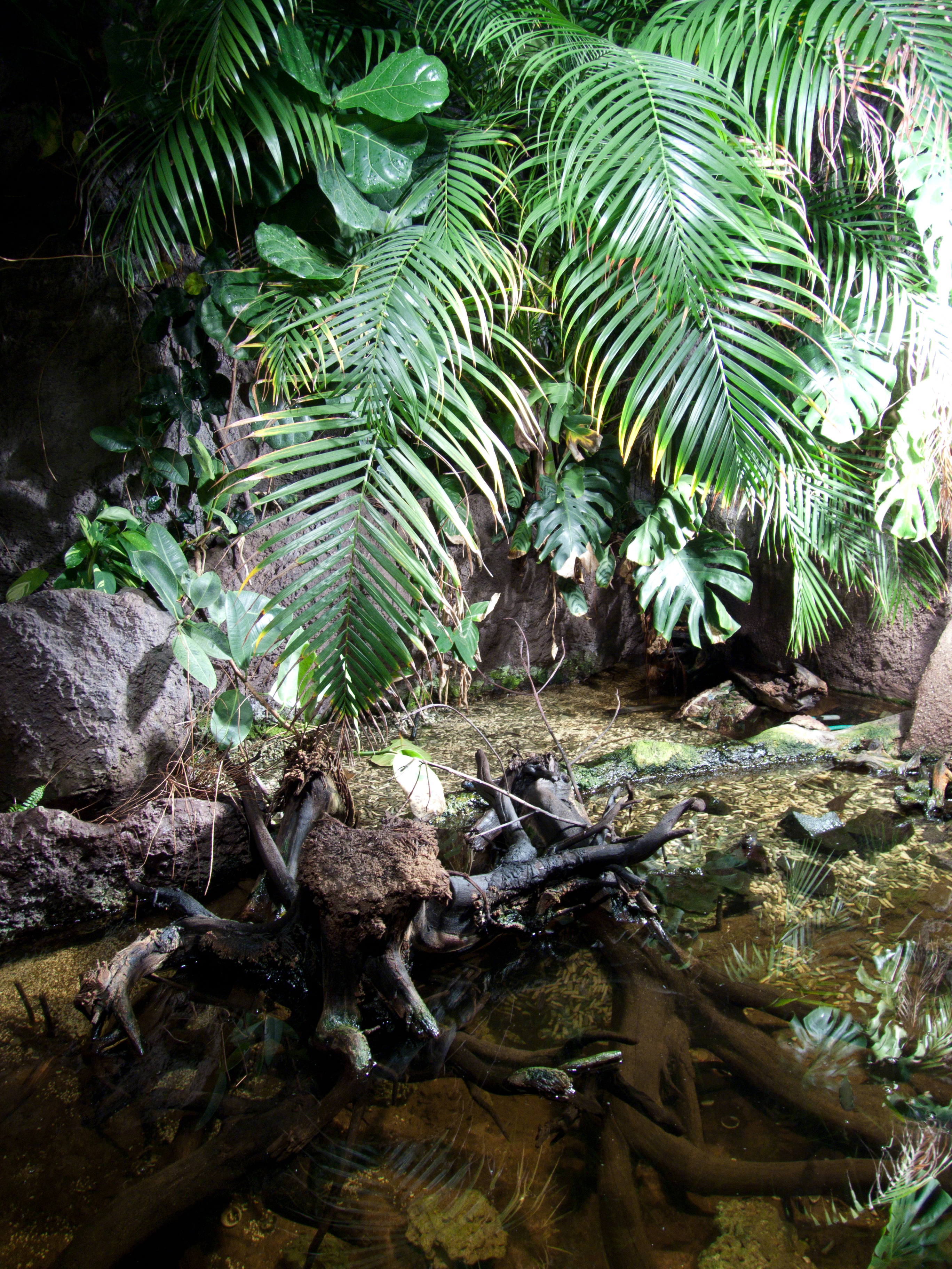 A paludarium in the Rajské ostrovy (Paradise Islands) building of the zoo in Děčín, Czech Republic